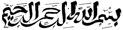 Image demonstrating the Sini script of Islamic Calligraphy Typefaces are ineligible for copyright in the United States.